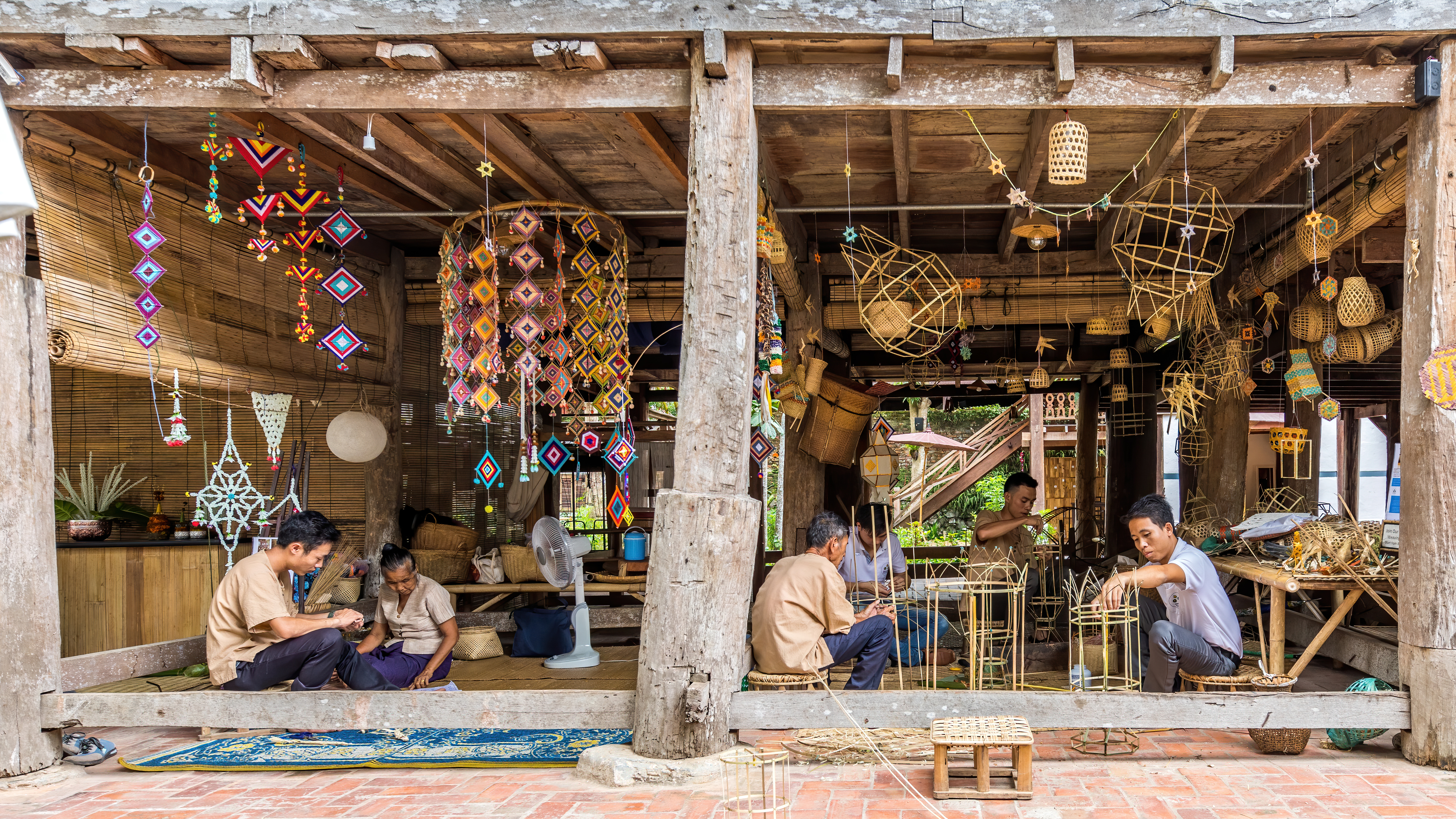 Craftmen at work, wicker furniture makers, bamboo basket weaving, textile crafts and suspended mobile sculptures, interior view of the wooden Heuan Chan heritage house, stilt building with wooden ceiling, bamboo furniture and "sudare" (bamboo venetian blinds), Luang Prabang, Laos.